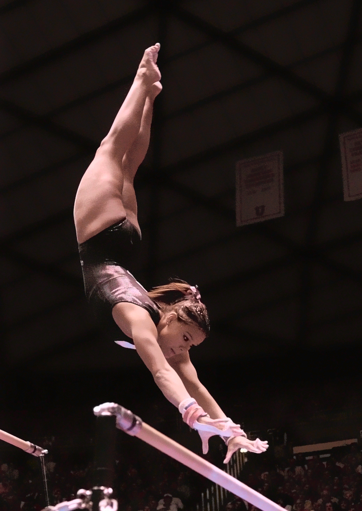 Ashley Postell on the uneven bars during the 2006 University of Utah v. University of Georgia dual meet.